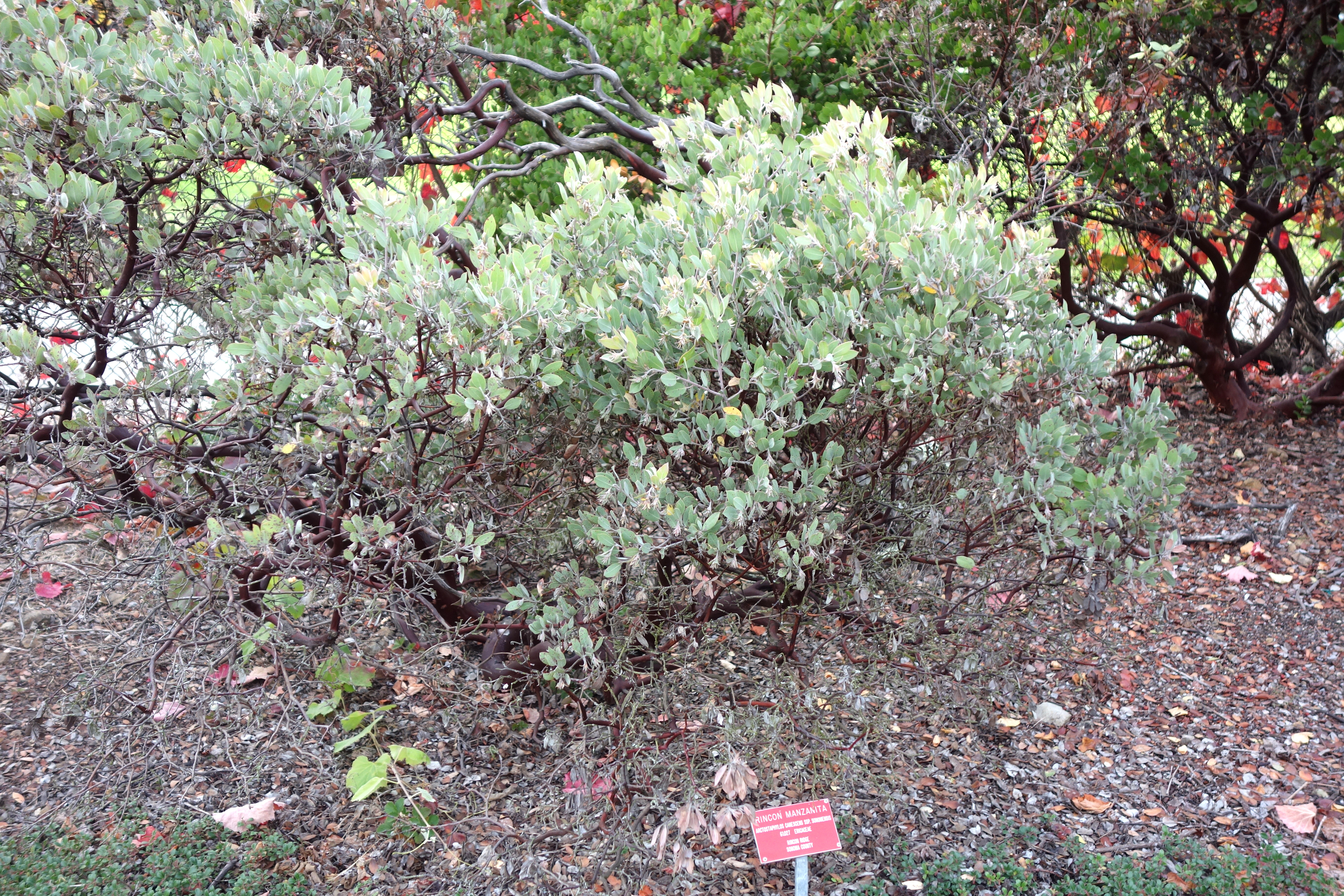 Botanical specimen in the Regional Parks Botanic Garden, Berkeley, California, USA.